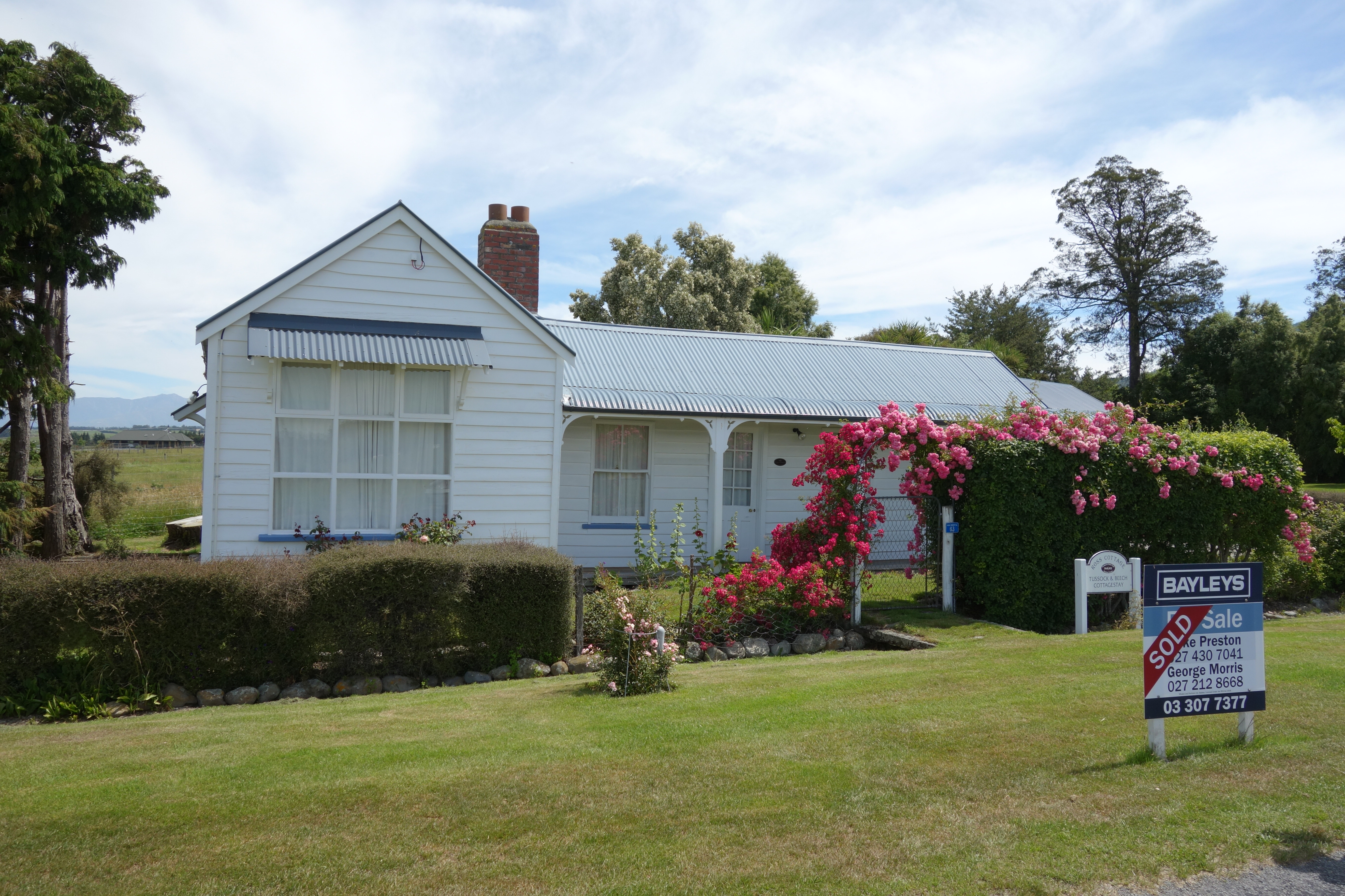 Staveley in January 2016